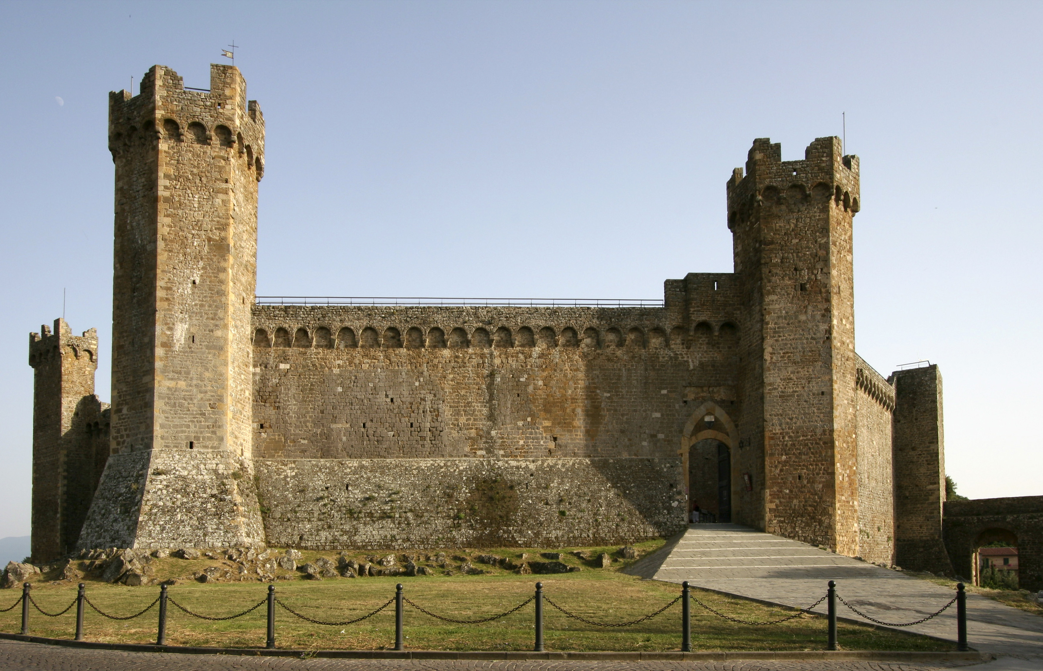 Castle (Fortezza) at Montalcino, Siena, Italy. Photo taken by Type17, 18:50hrs June 24th 2007